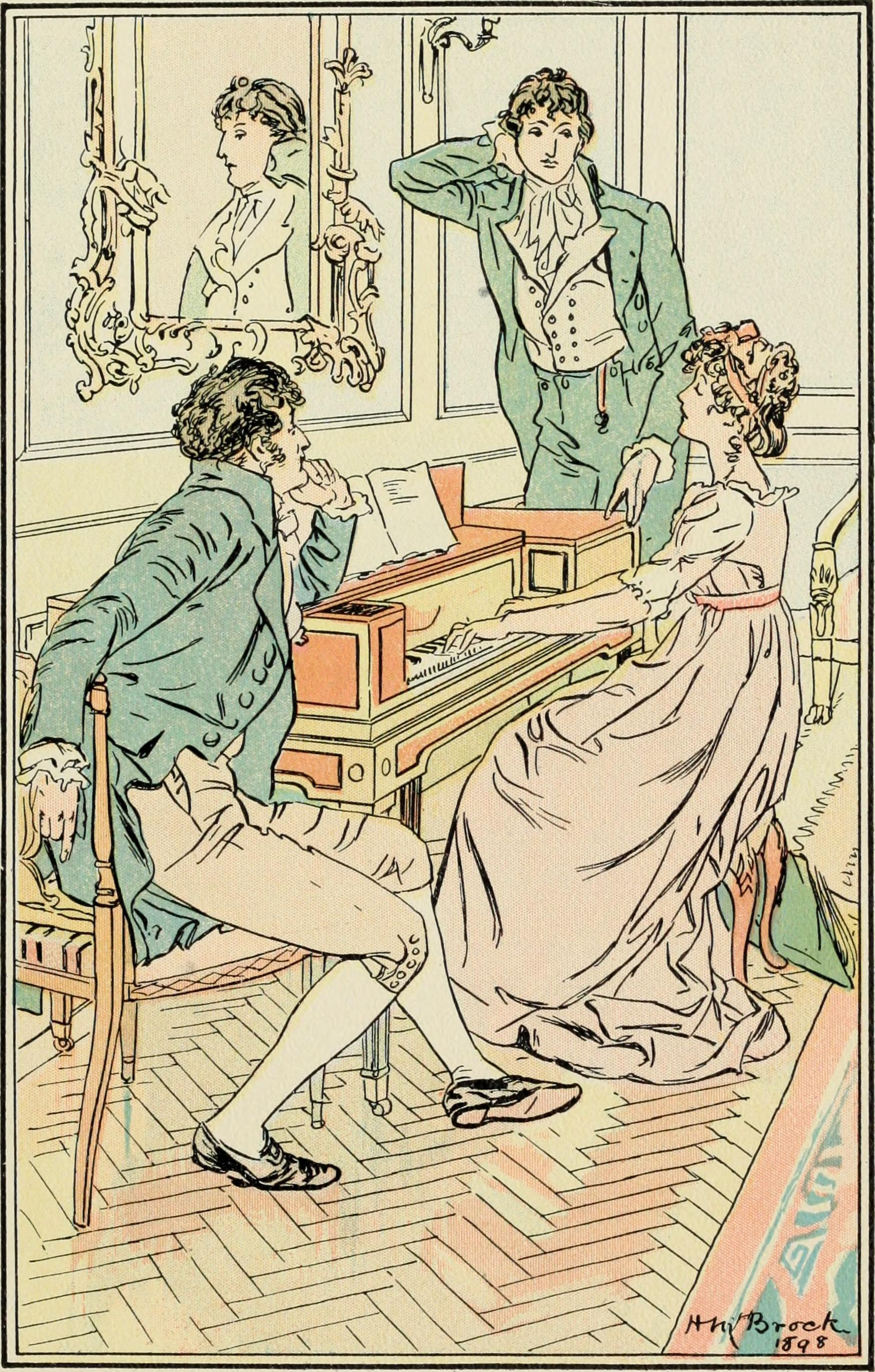 Title: The novels and letters of Jane Austen Year: 1906 (1900s) Authors: Austen, Jane, 1775-1817 Johnson, R. Brimley (Reginald Brimley), 1867-1932 Subjects: Publisher: New York : F.S. Holby Pride and Prejudice (part 1): Colored illustration (1898) by H. M. Brock, inserted between page 262 and 263.